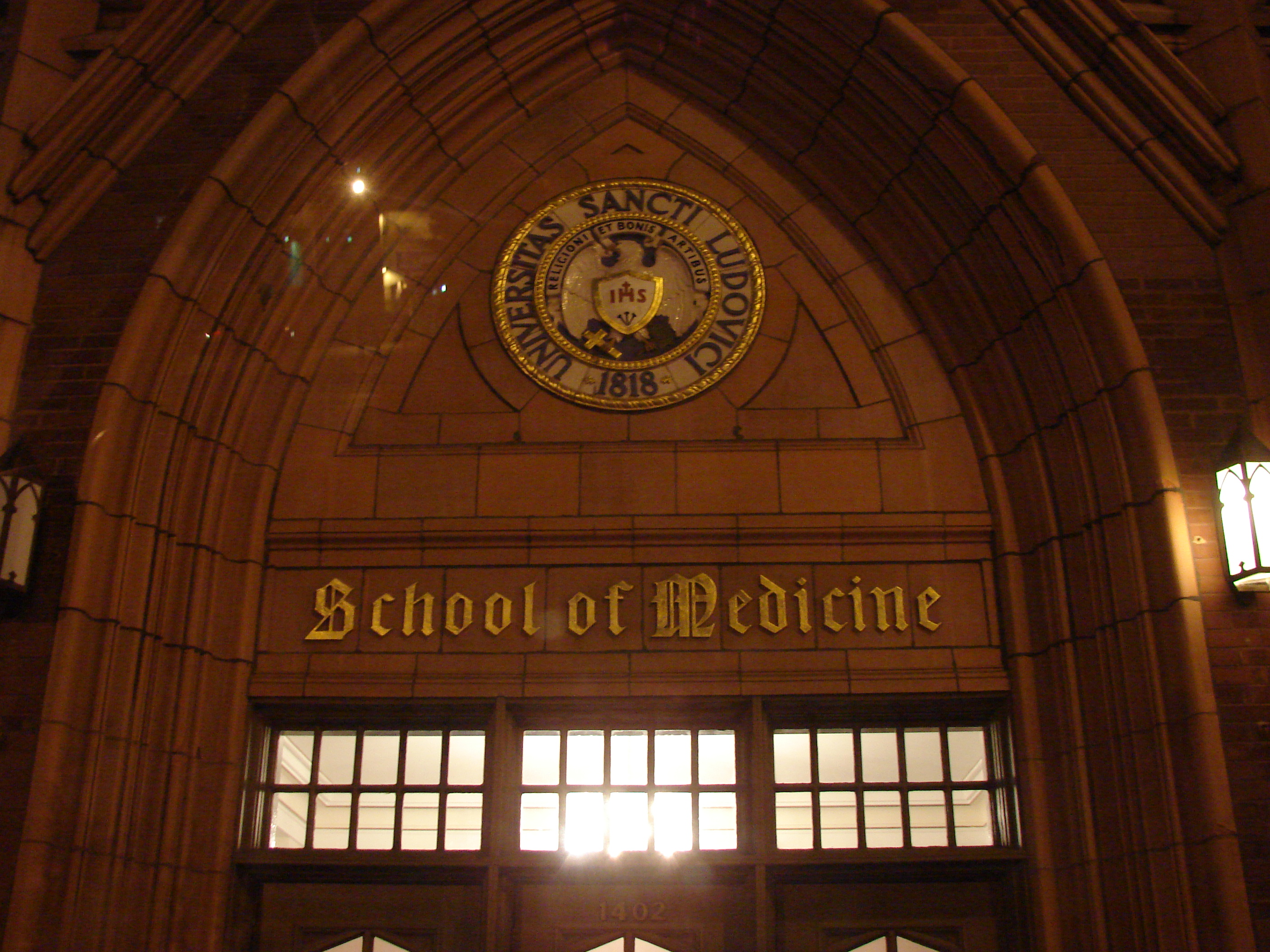 slu medical school sign